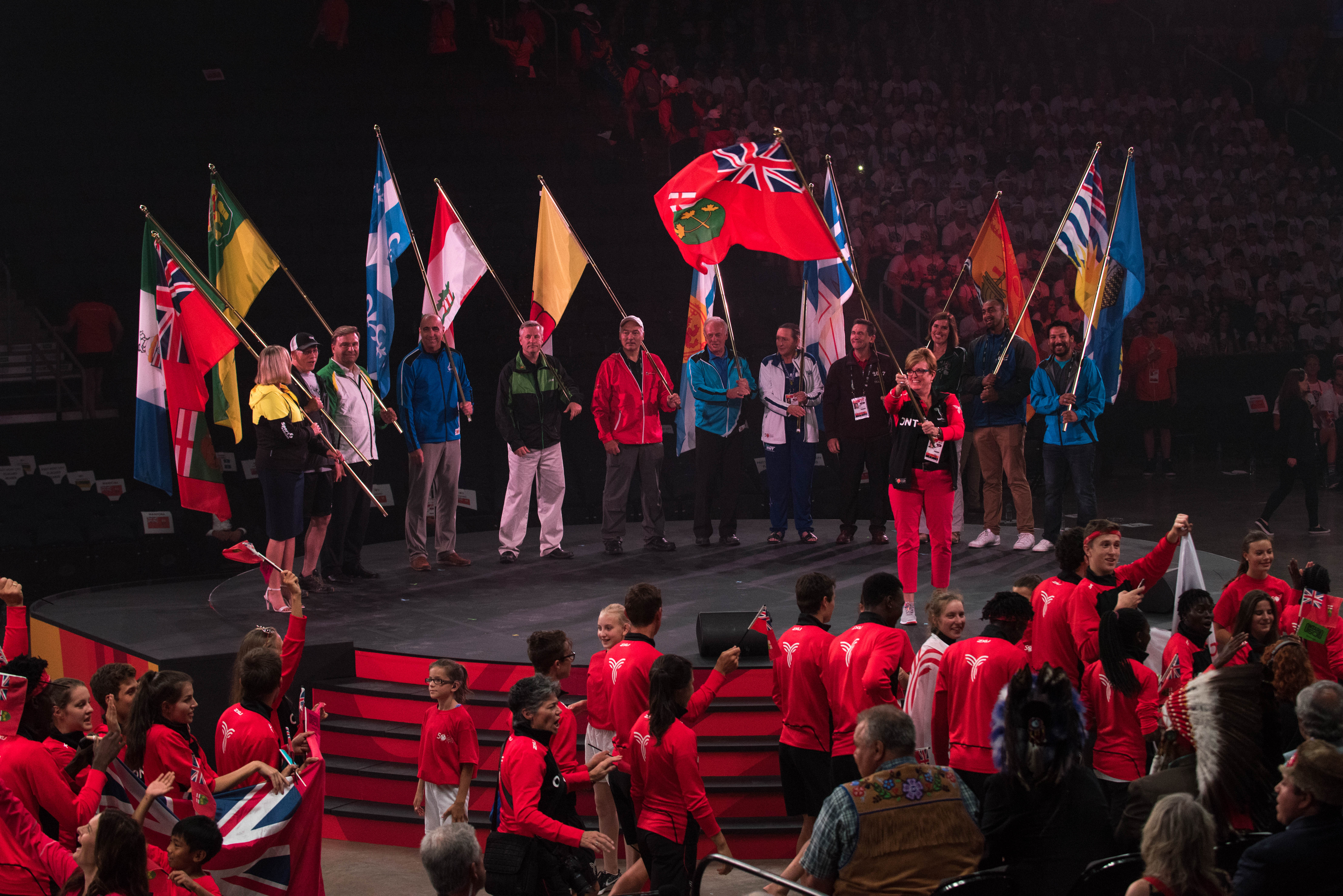 2017 Canada Summer Games - Opening Ceremony